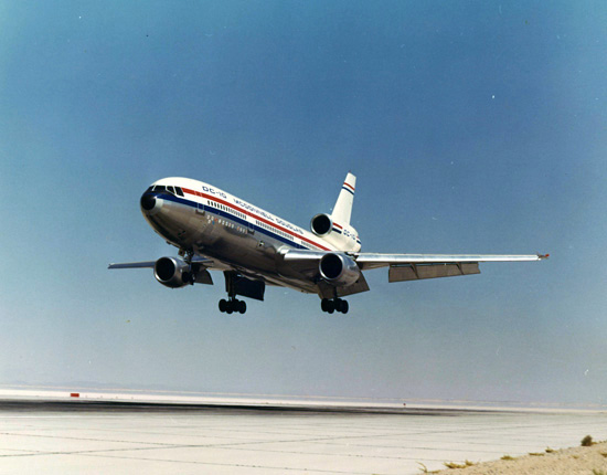 Catalog #: 00068935 Manufacturer: McDonnell-Douglas Designation: DC-10 Official Nickname: Notes: Various airlines in flight – color Repository: San Diego Air and Space Museum Archive